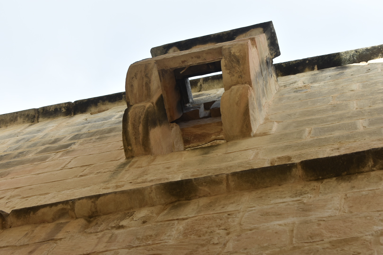 Machicolation